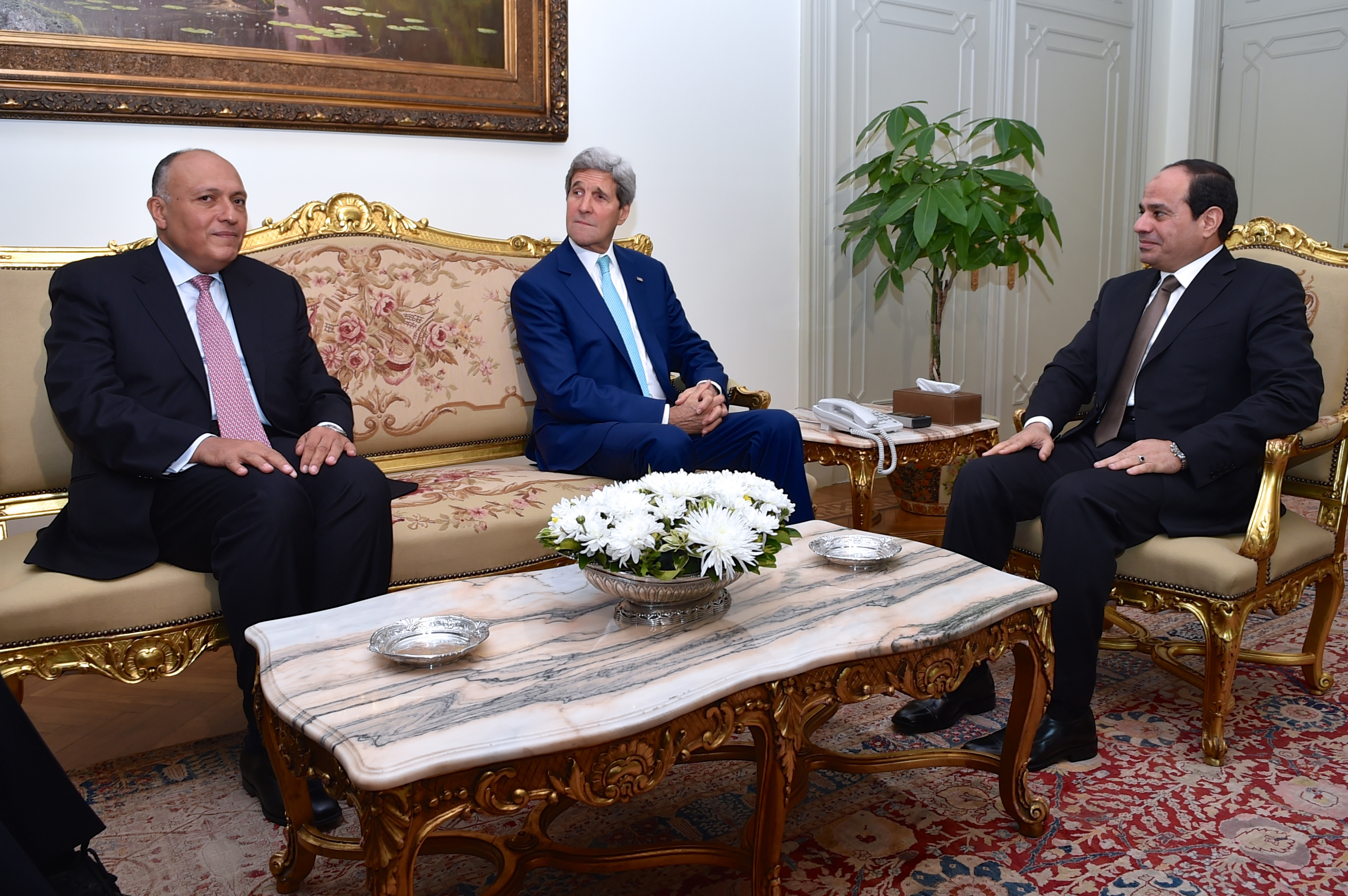 U.S. Secretary of State John Kerry and Egyptian Foreign Minister Sameh Shoukry sit side-by-side as they meet with Egyptian President Abdel Fattah al-Sisi at the Presidential Palace in Cairo, Egypt, on July 22, 2014, to discuss a possible ceasefire between Israeli and Hamas forces fighting in the Gaza Strip.